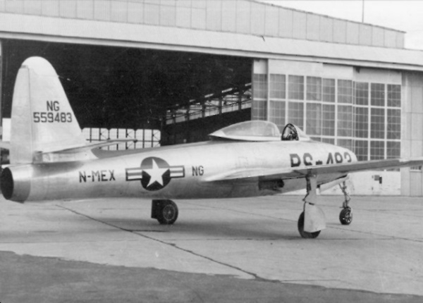 A U.S. Air Force Republic YP-84A-1-RE Thunderjet fighter (s/n 45-59483) from the New Mexico Air National Guard.